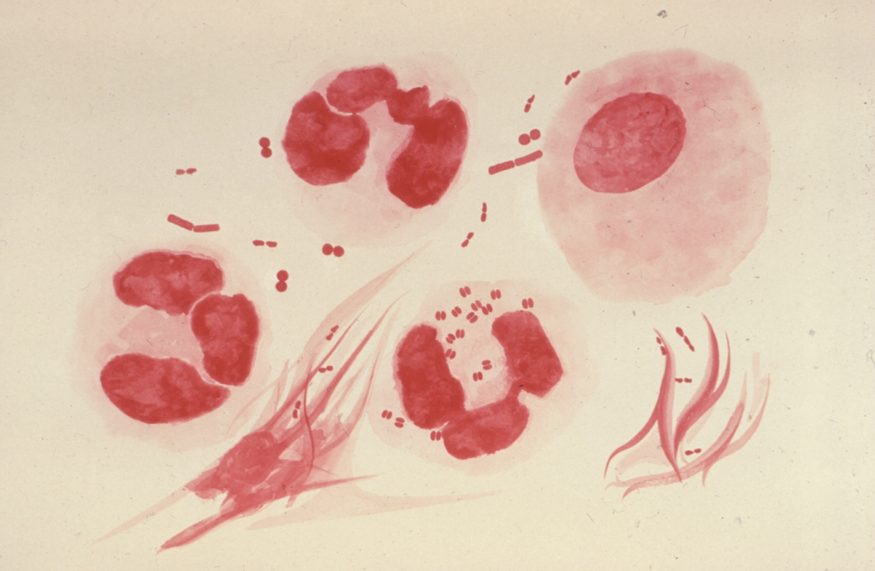 This illustration depicts a urethral exudate containing Neisseria gonorrhoeae from a patient with gonococcal urethritis. This illustration depicts a Gram-stain of a urethral exudate showing typical intracellular gram-negative diplococci, and pleomorphic extracellular gram-negative organisms, which is diagnostic for gonococcal urethritis.